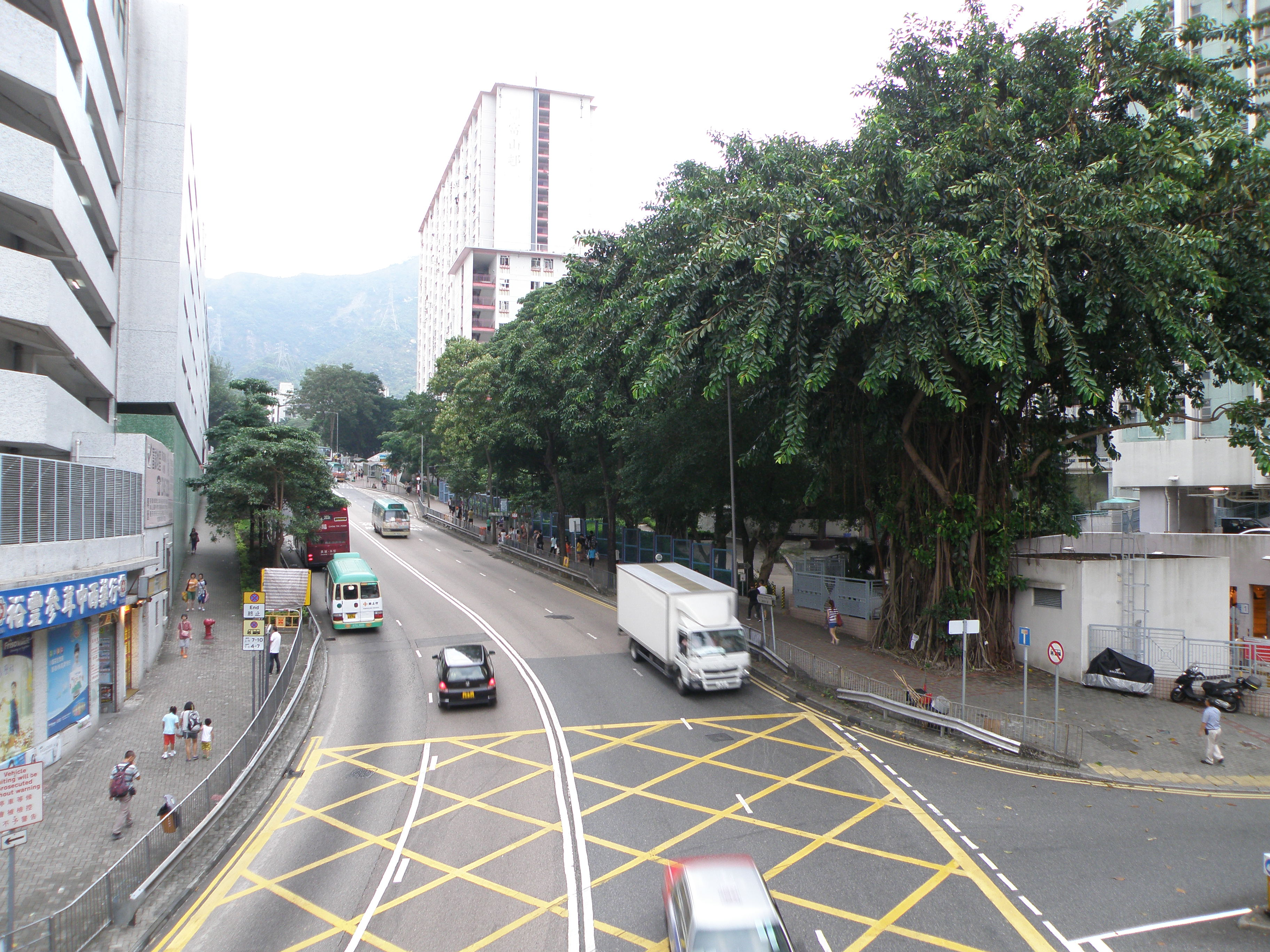 Po Kong Village Road near Fu Shan Estate, Hong Kong.